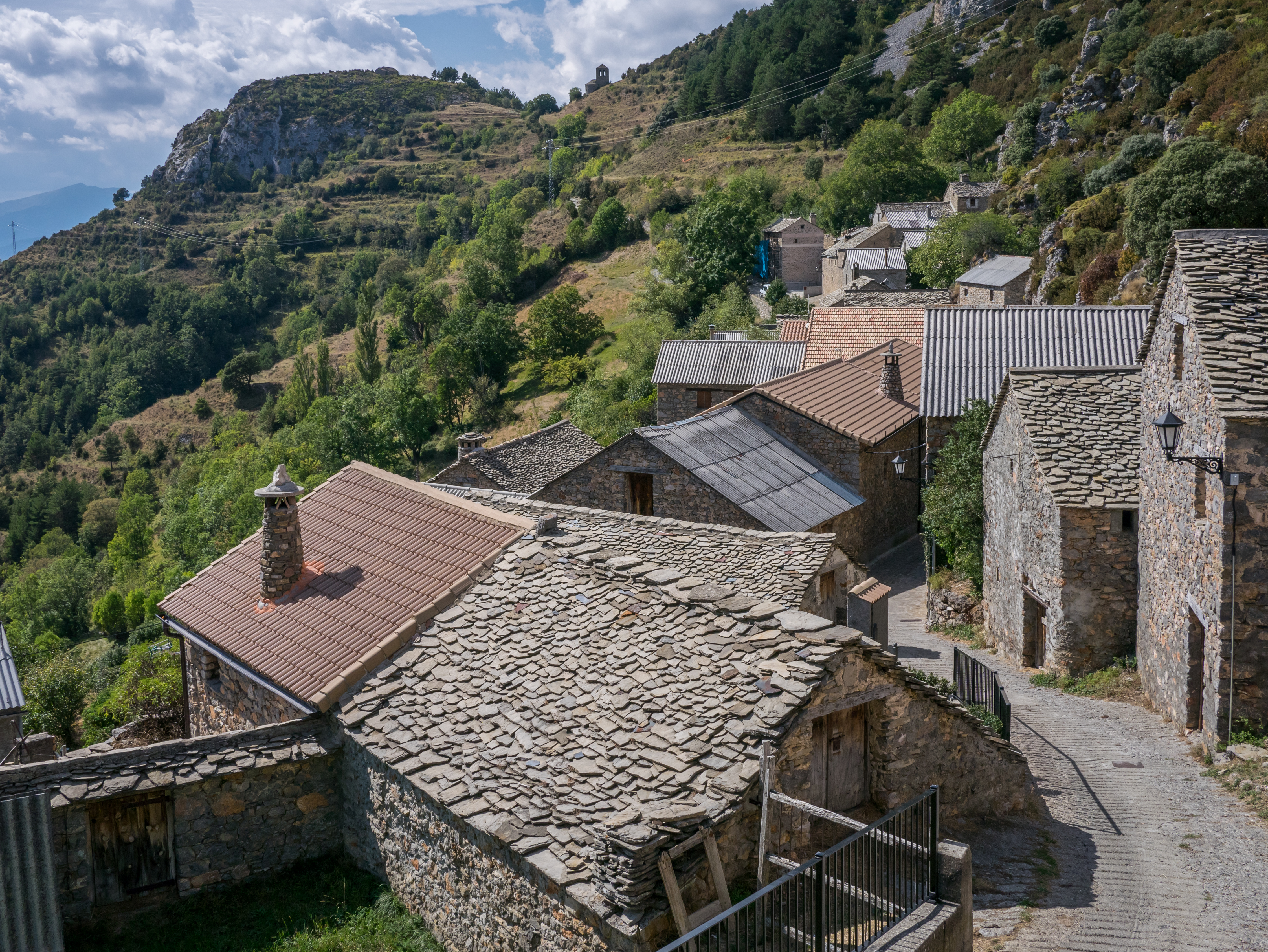 Village houses in Tella. Sobrarbe, Huesca, Aragón, Spain